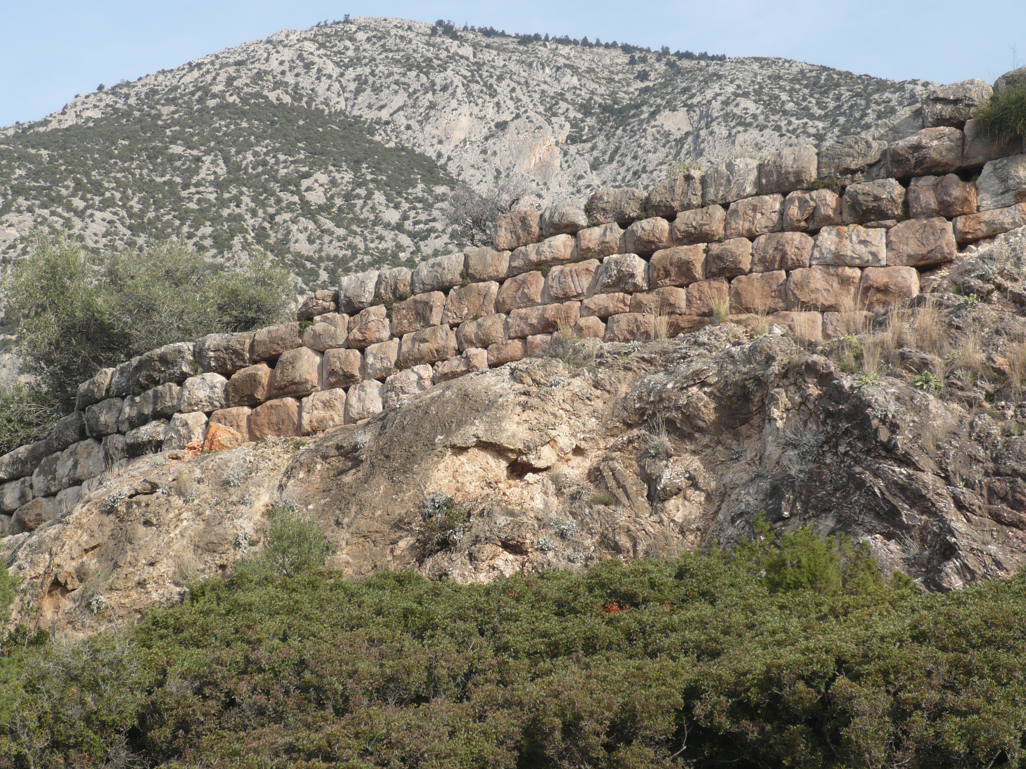 Acropolis of Voulida, Boeotia, Greece